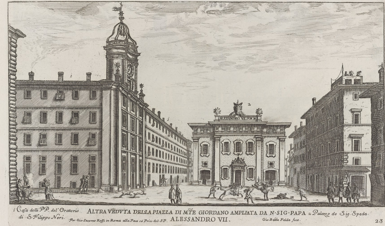 Another view of the square of Monte Giordano currently named Piazza dell'Orologio after the clock tower topping the building hosting the Priests of San Filippo Neri, called Filippini (1 in the image). In the center, the Spada palace (2 in the image).